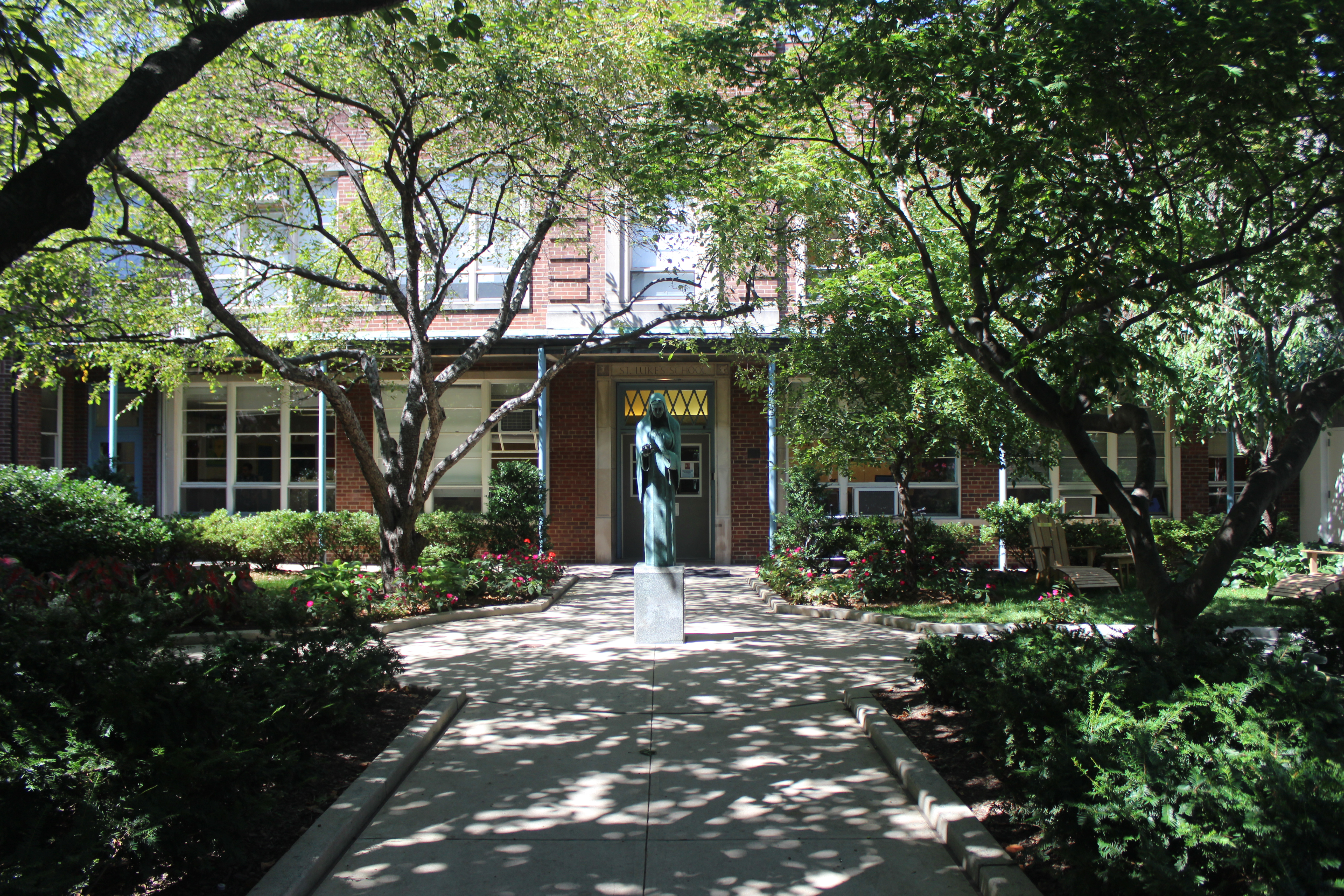 This is the entrance to St. Luke's School, which has a statue of the Virgin Mary as a central point in the courtyard.